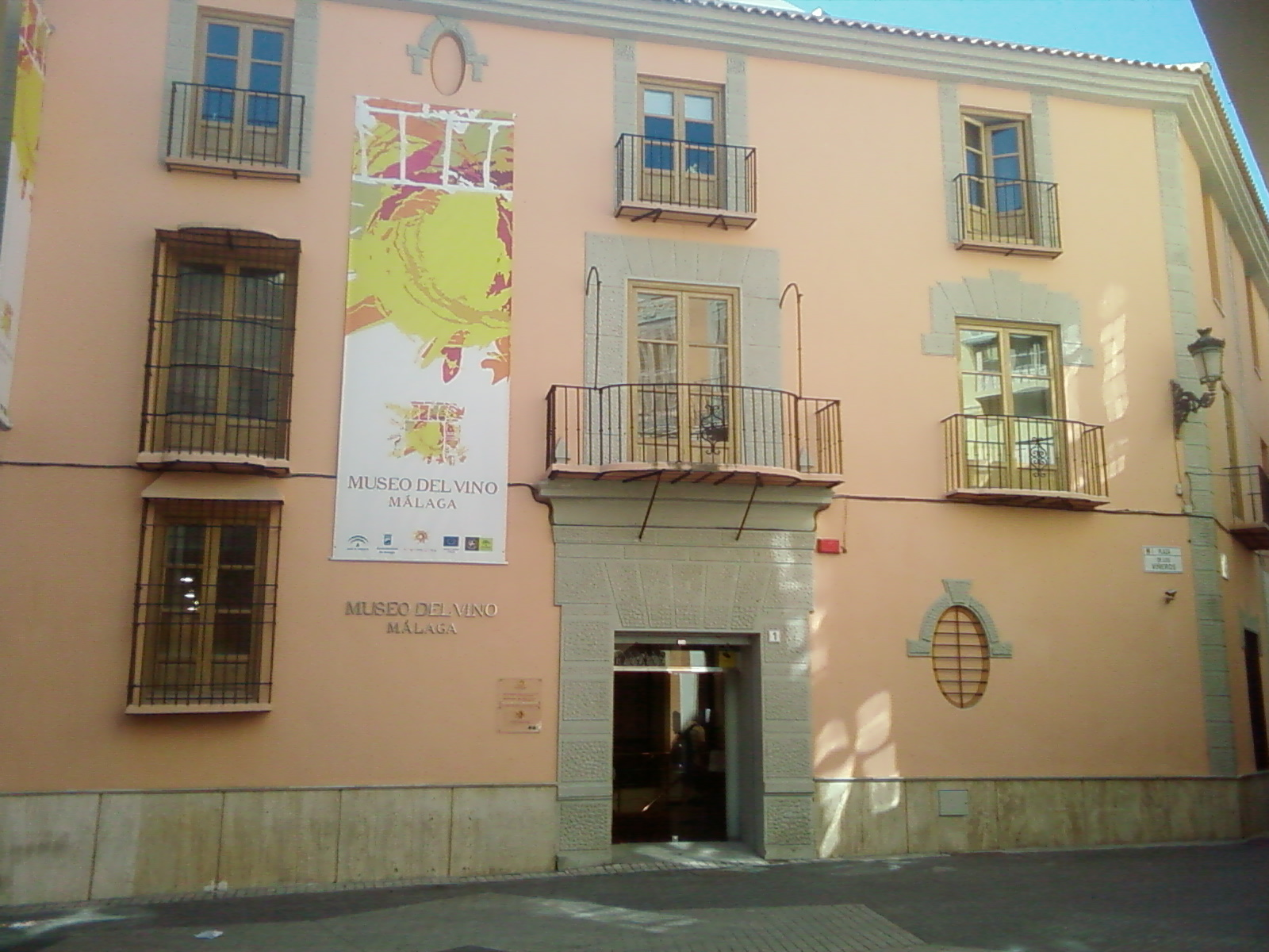 Biedmas Palace, eighteenth century, Museum of Wine, Málaga, Andalusia, Spain.